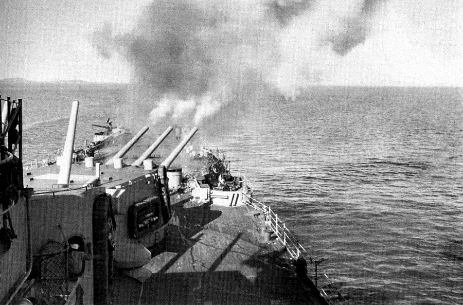 The after turret of the United States Navy heavy cruiser USS Toledo (CA-133) fires its 8-inch (203-mm) 55-caliber guns at enemy targets ashore around Incheon, South Korea, during the pre-invasion bombardment prior to the amphibious landings at Inchon during the Korean War.